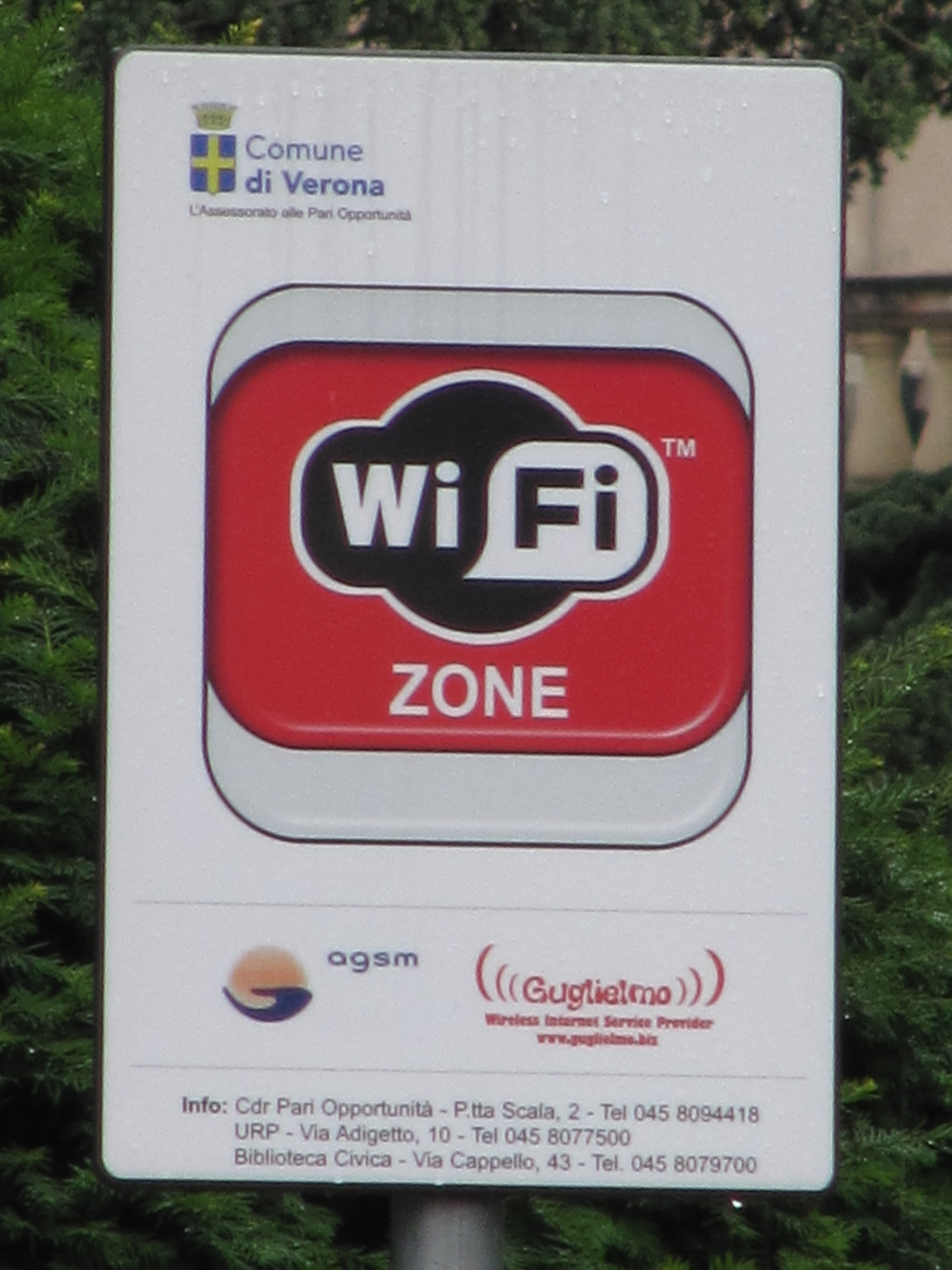 A Wi-Fi sign on Piazza Brá in Verona, Italy.